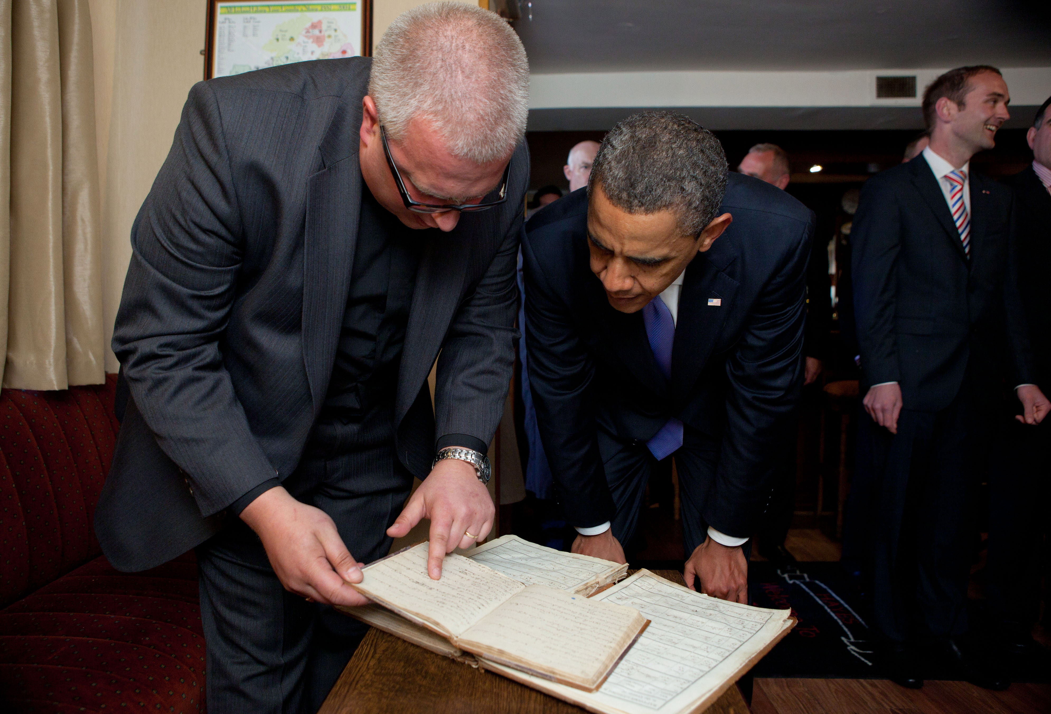 Reverend Canon Stephen Neill, Rector of Cloughjordan and Borrisokane Group of Parishes (Anglican/Episcopalian) in Ireland shows United States President Barack Obama his (the President's) Irish ancestral records at Ollie Hayes's Pub in Moneygall, County Offaly, Ireland, 23 May 2011. The President's eighth cousin, Henry Healy, stands in the background at right.